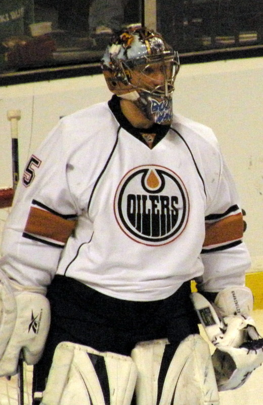 Nikolia Khabibulin in 2009